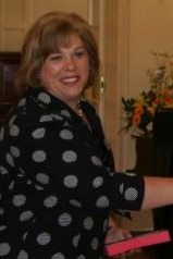 Cropped photograph of Teresa Gambaro with the Governor-General at a ceremony confirming her role as Assistant Minister for Immigration and Citizenship in March 2007